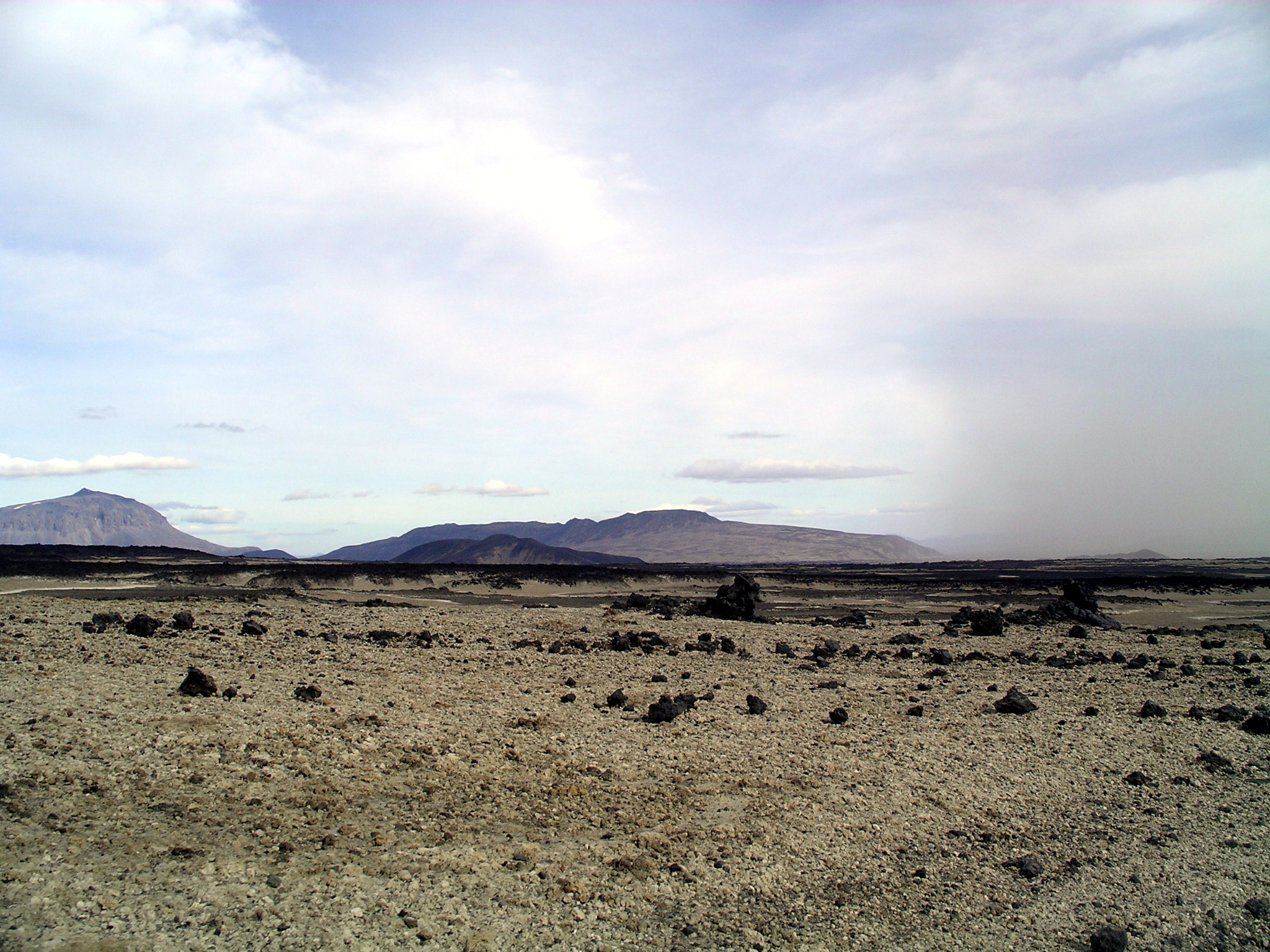 deflation cloud, aeolian sediment transport (on the right-hand side); the picture is taken in the Highlands of Iceland, at the bottom of Askja, towards north-east ; The Herðubreið is on the left-hand side, central relief backwards is Herðubreiðarlindir, wind is coming from the south (right-hand)